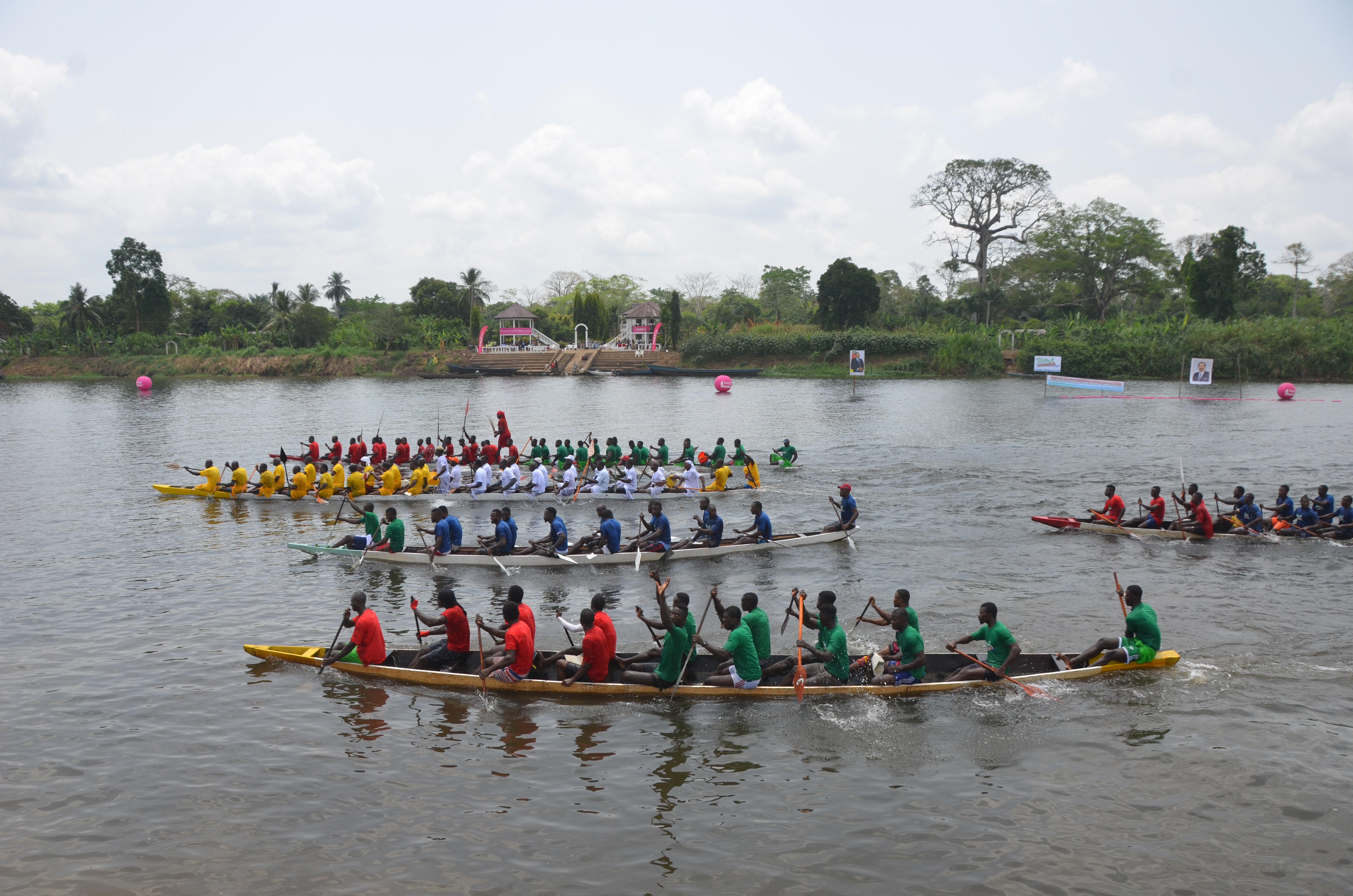 This is an image with the theme "Play" from: Cameroon